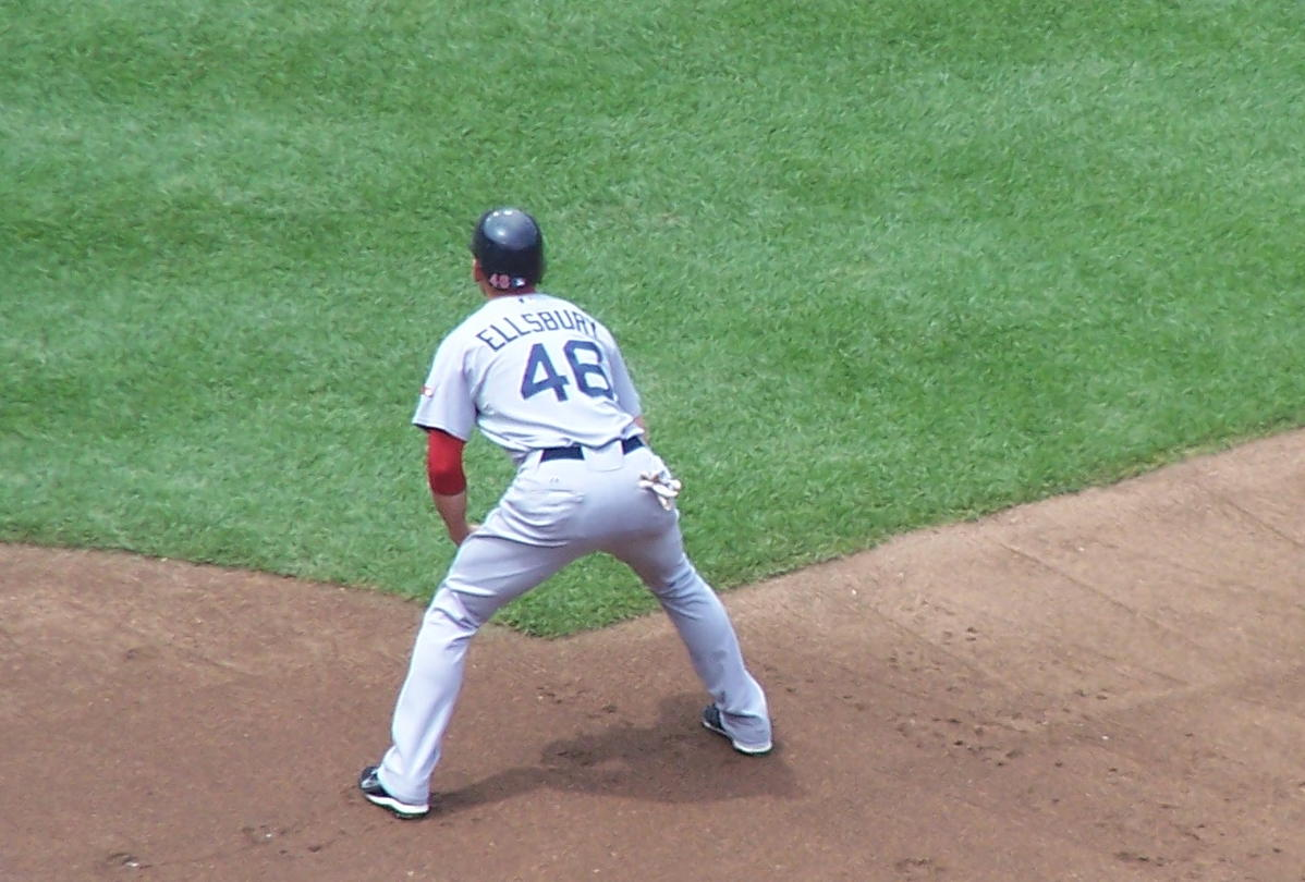 Jacoby Ellsbury leading off first base in a baseball game against the Baltimore Orioles.